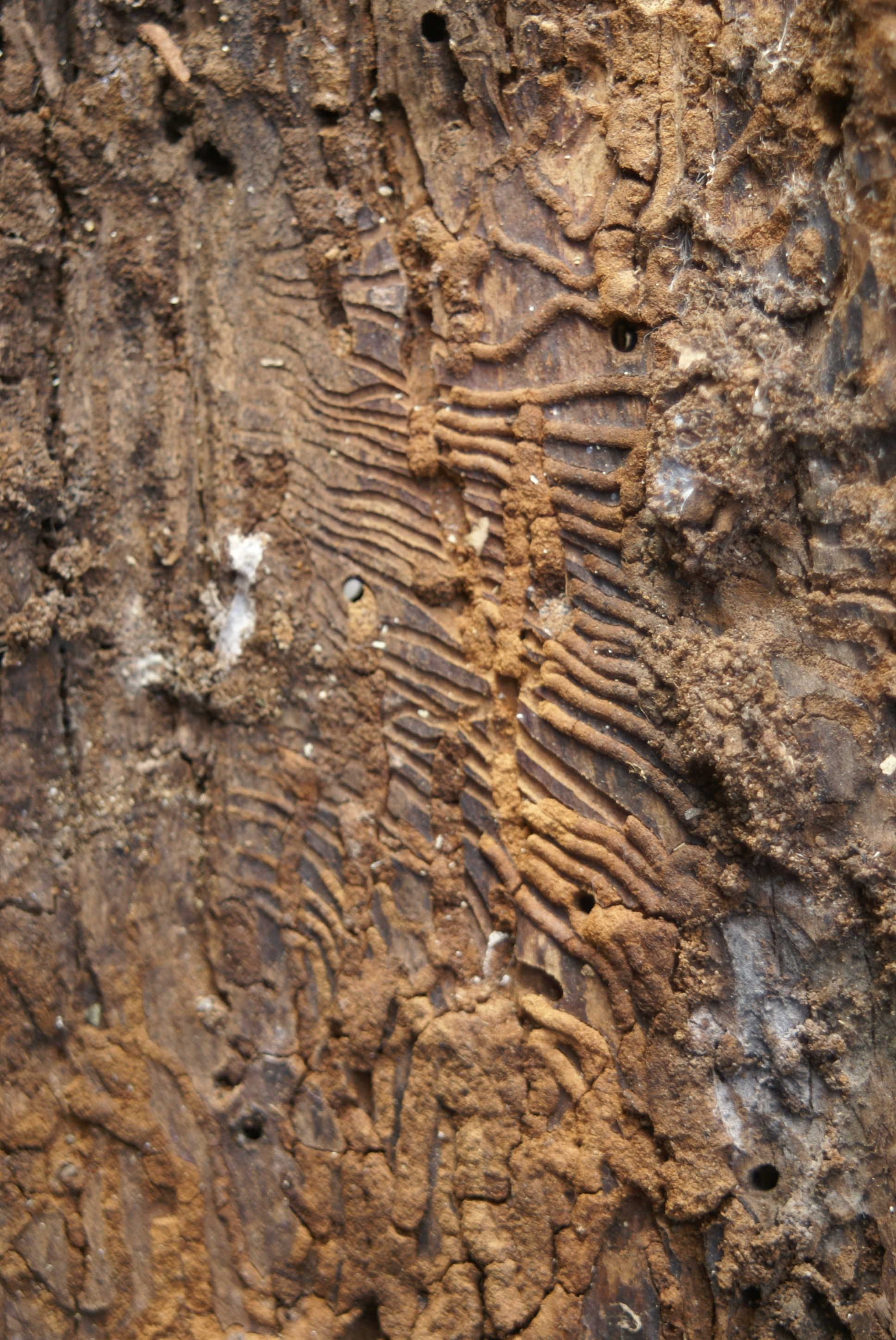 Scolytus mali, Galleries, Holes in Pyrus.